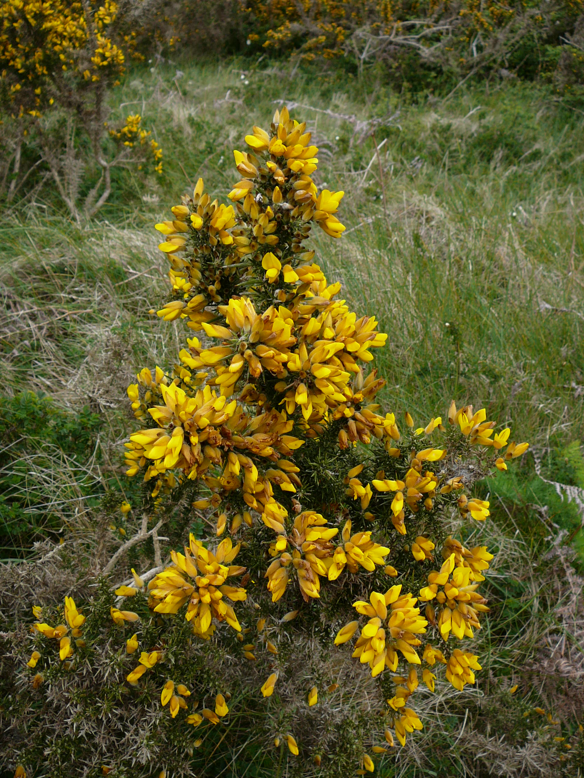 Flowers in Bretagne (Ulex europaeus).